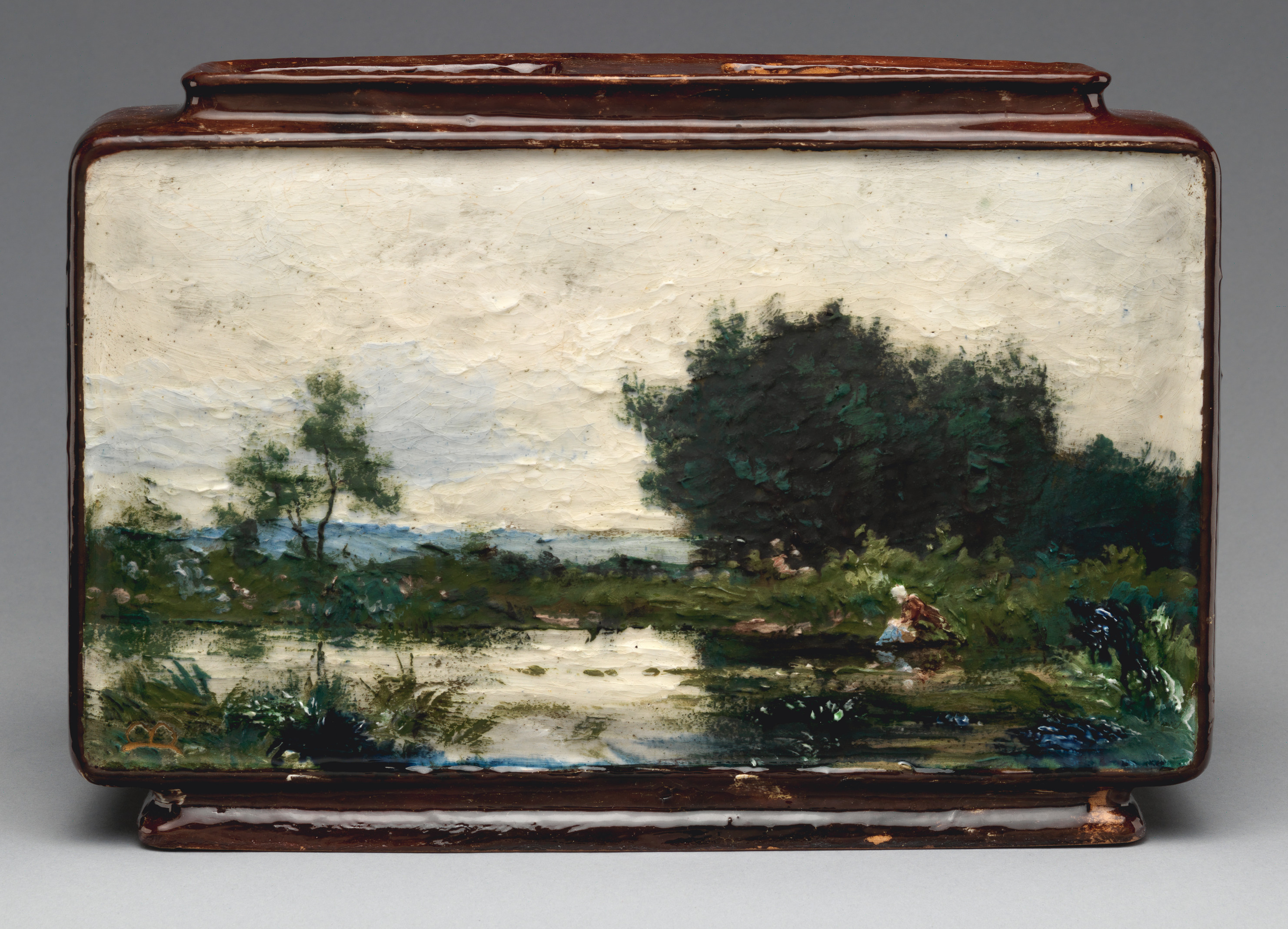 French, Paris; Jardinière; Ceramics-Pottery